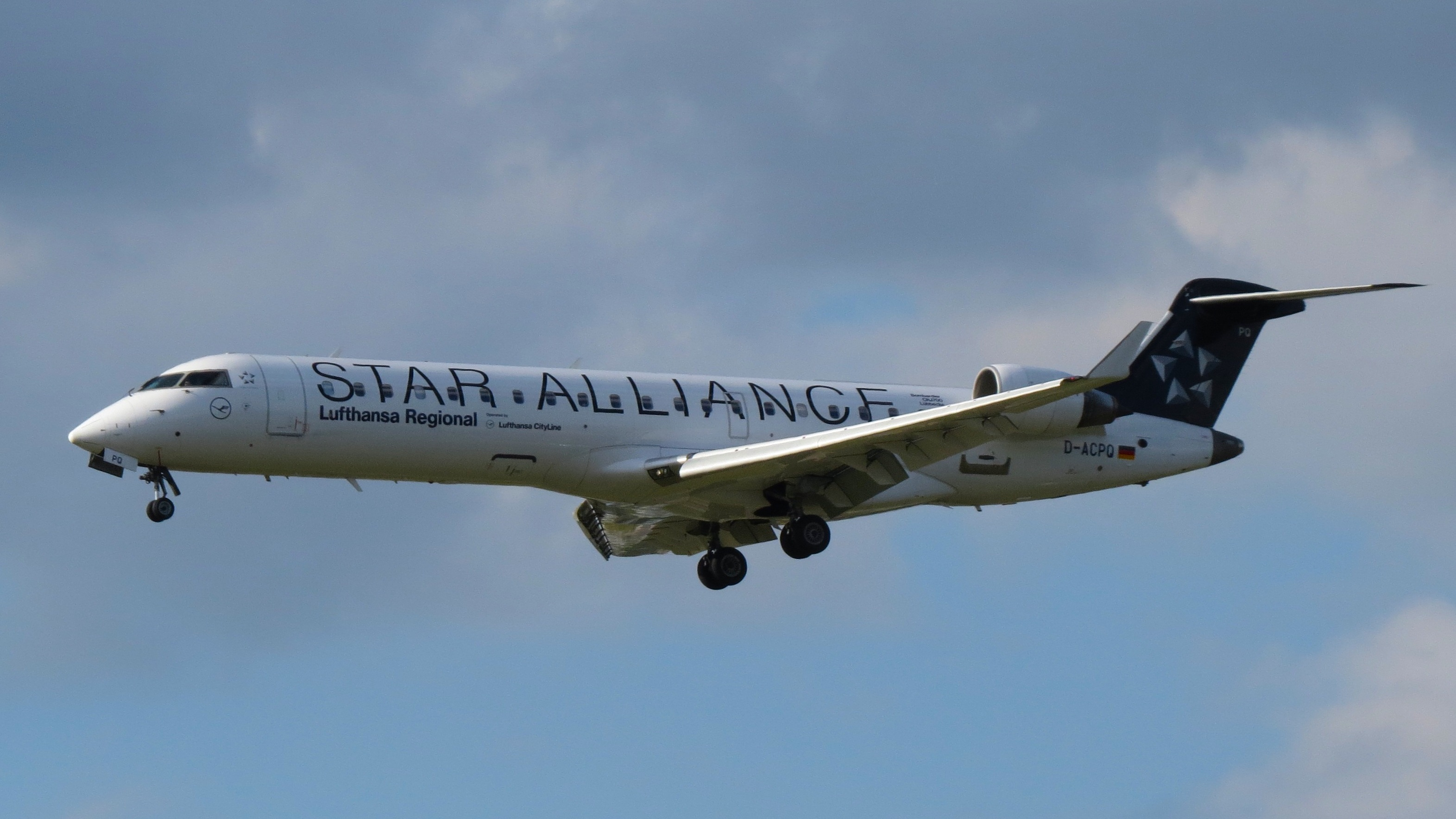 Lufthansa CityLine Canadair CRJ-700